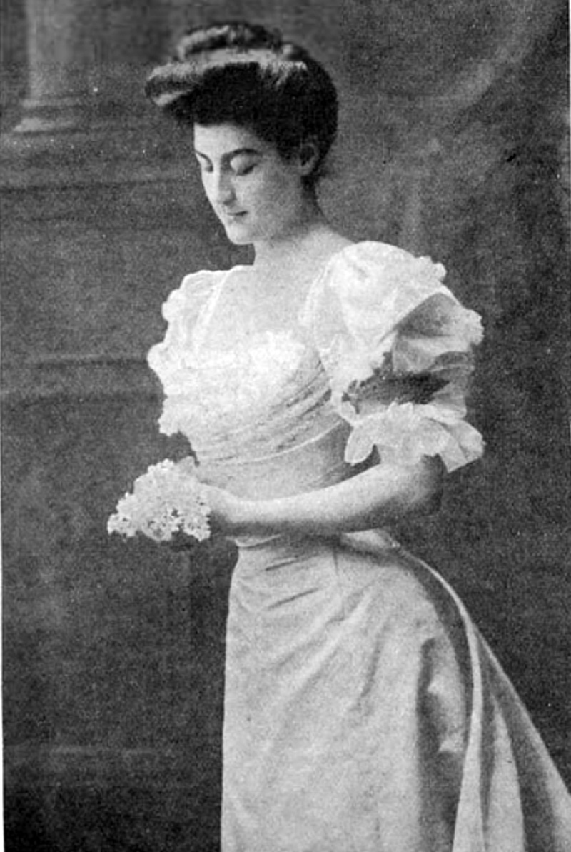 Isabelle Rosalind Humphreys-Owen (then Miss Sassoon) shortly before her marriage in 1907.